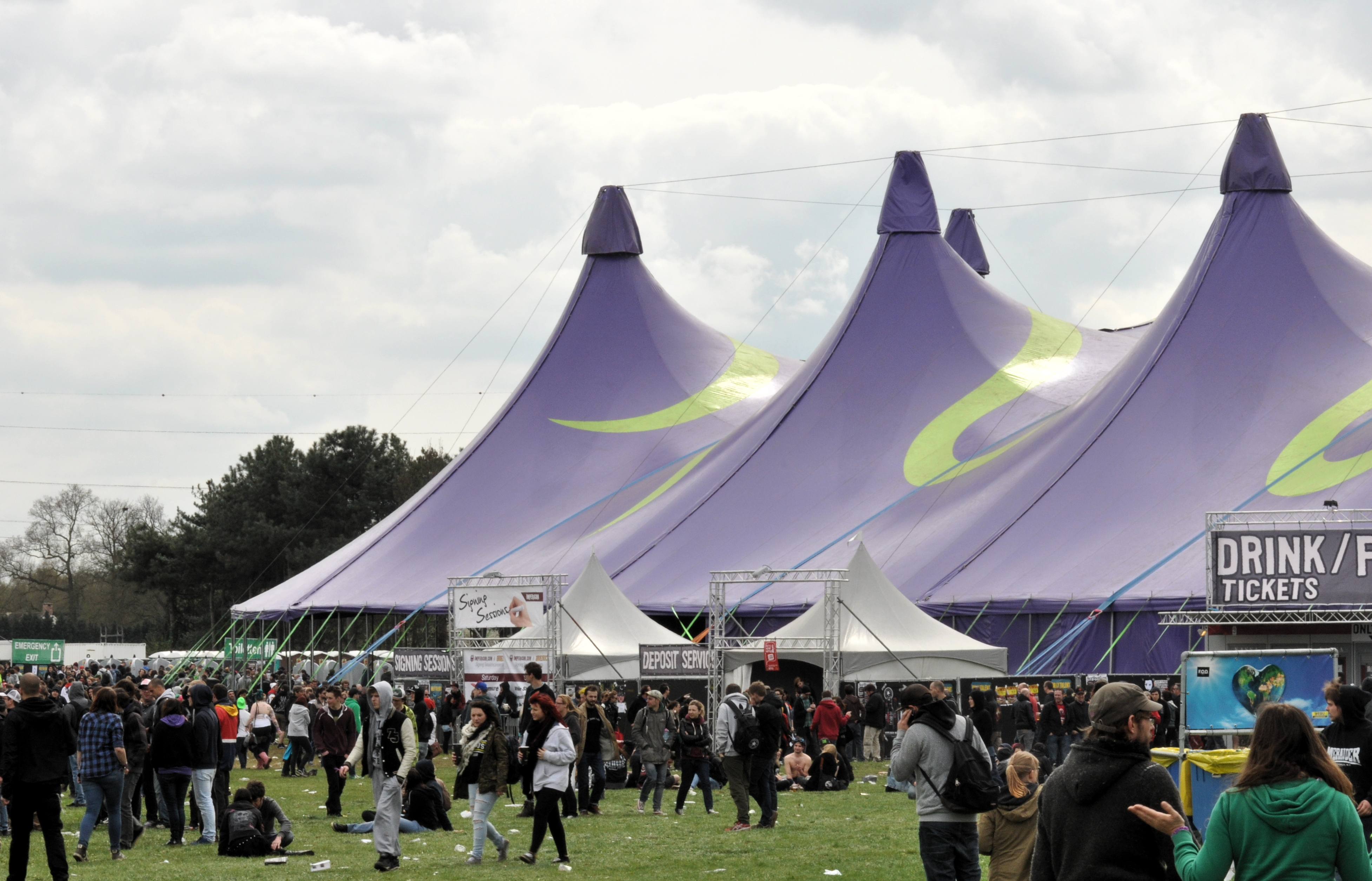 Groezrock 2013